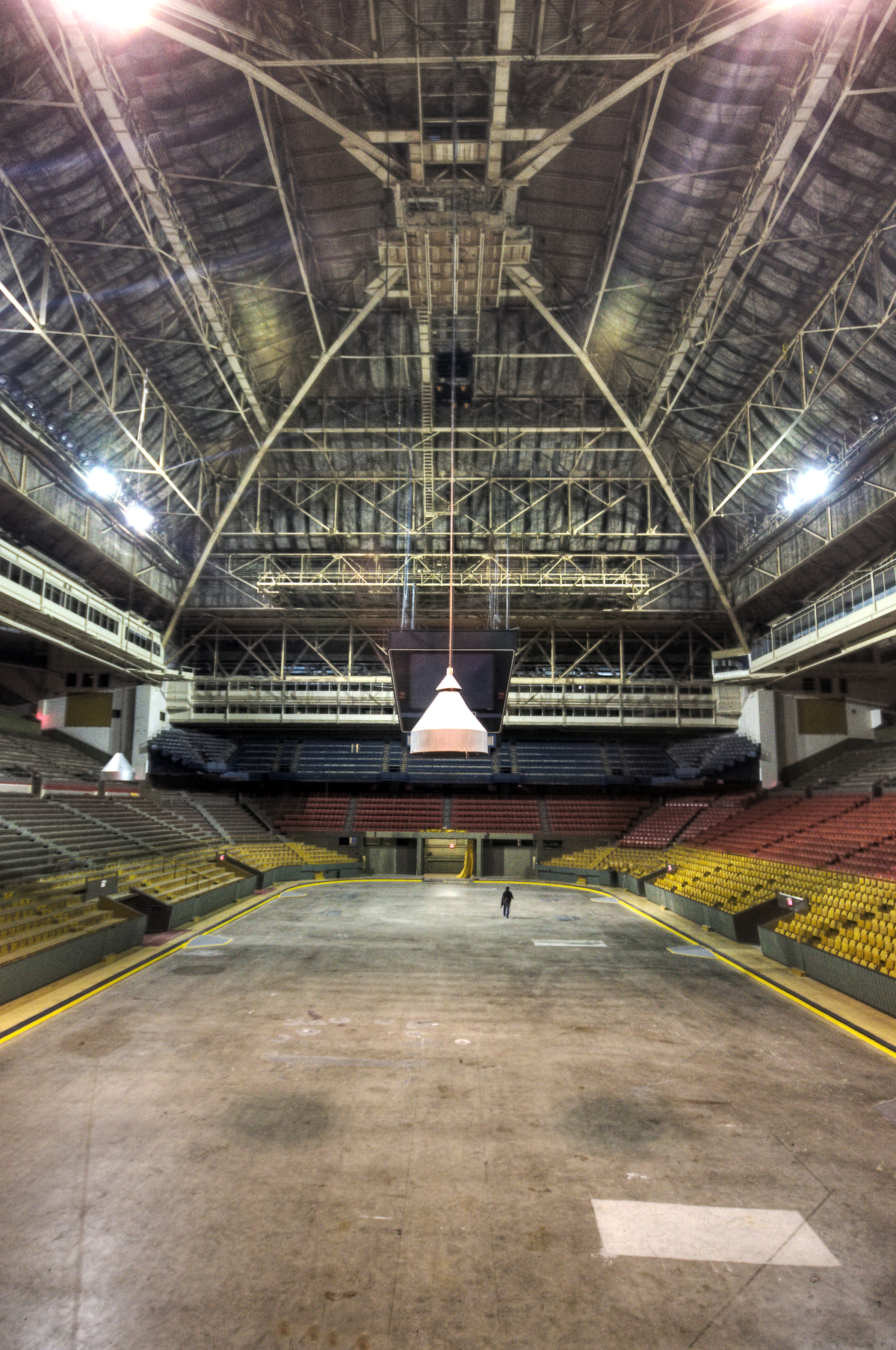 The former ice surface at Maple Leaf Gardens, a former hockey arena in Toronto, Canada.